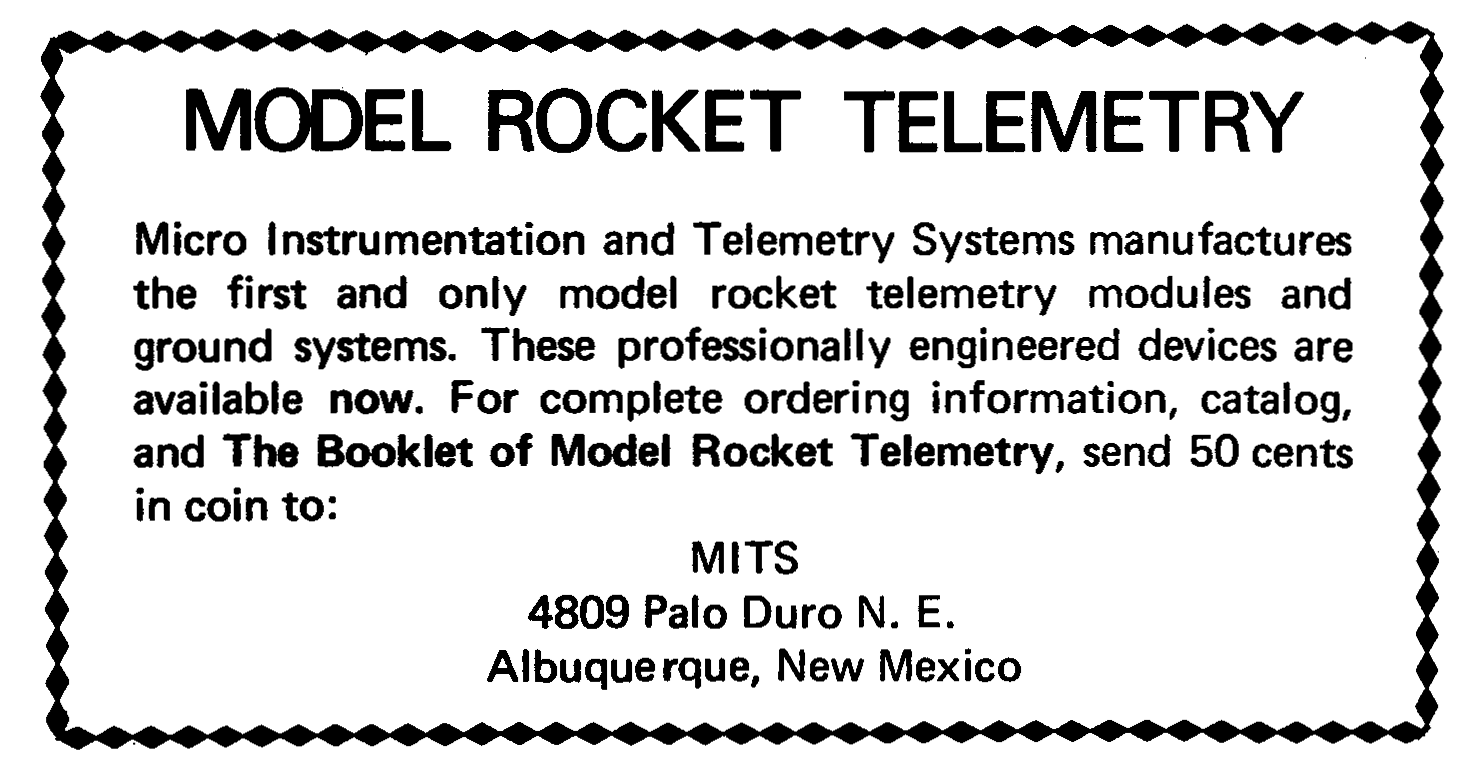 Micro Instrumentation & Telemetry Systems, Inc (MITS) advertisement in March 1970. The MITS introduced the Altair 8800 in January 1975, the first successful personal computer. Ed Roberts, a founder of MITS, lived at 4809 Palo Duro Ave NE in Albuquerque, New Mexico